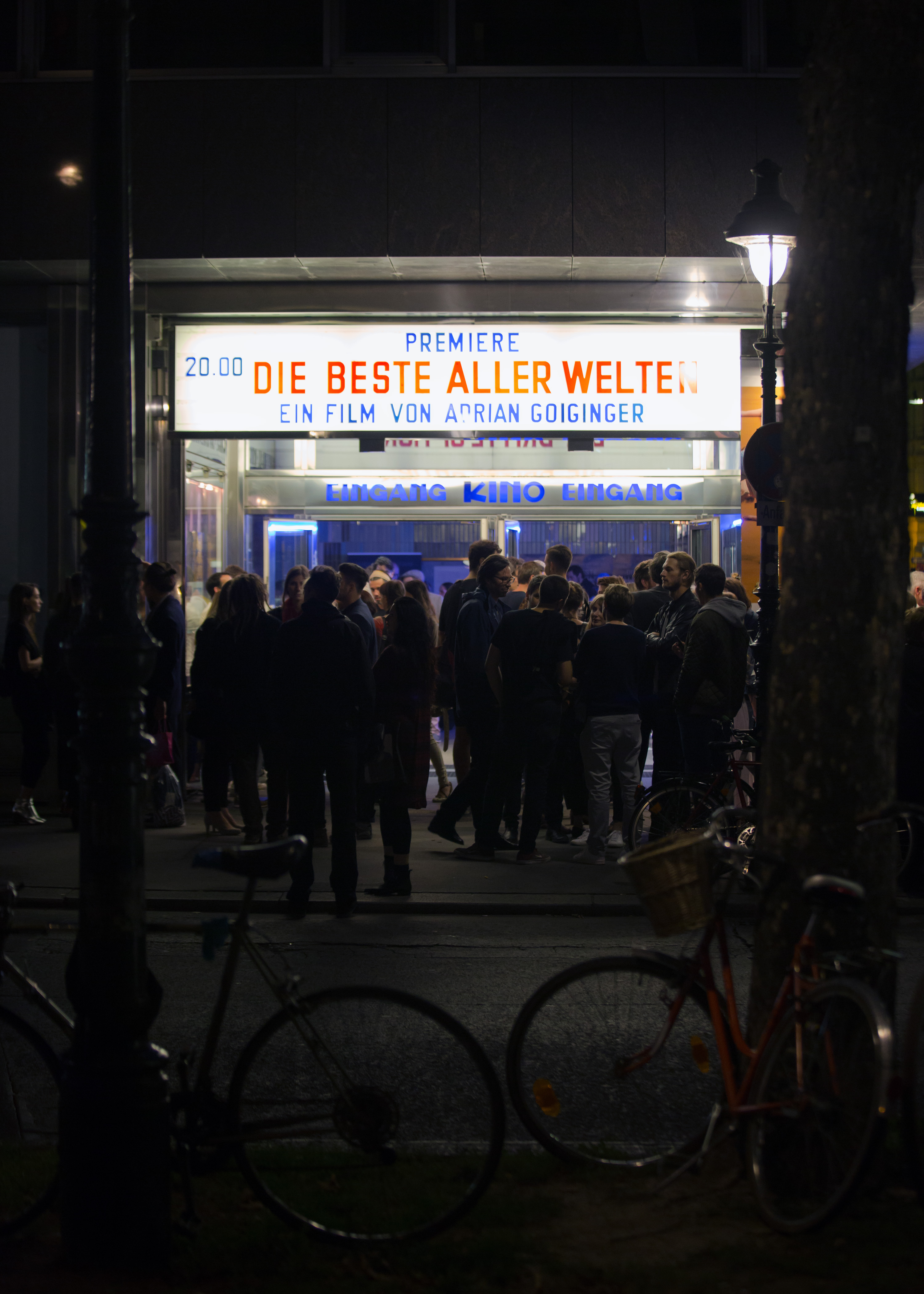 Viennese premiere of The Best Of All Worlds at Gartenbaukino, Vienna, Austria. Ritzberger with the award for best female actress of the Moscow International Film Festival for Verena Altenburger.